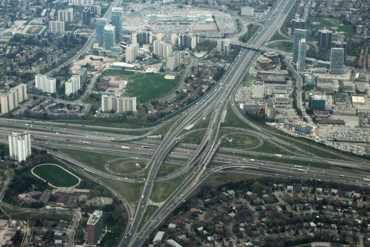 Highway 401 (west at left) interchage with Highway 404 (north at top) in Toronto, Ontario, Canada.